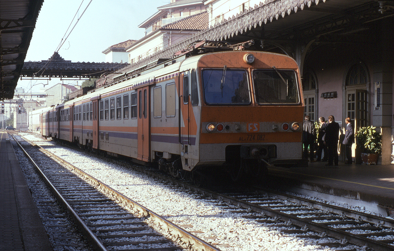 ALe 724.082 at Acqui Terme, 3 November 1997.